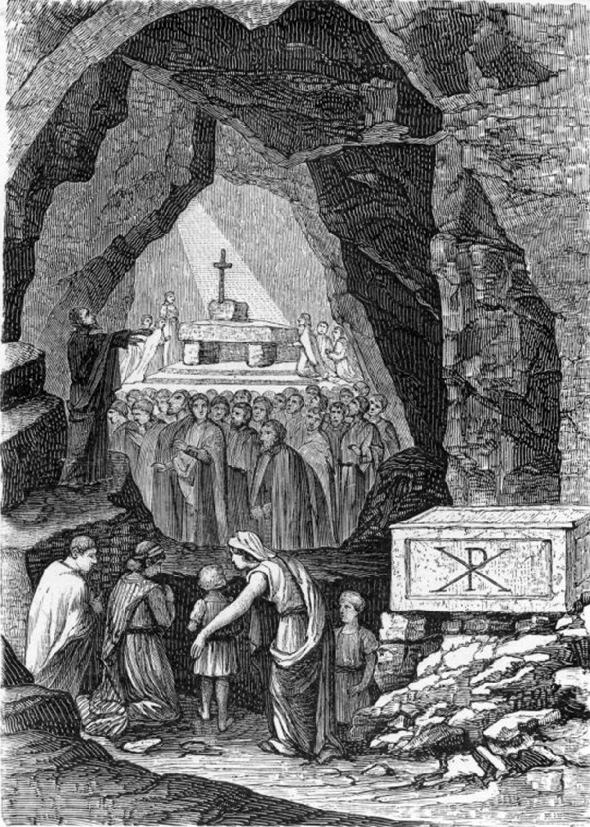 Early Christians Worship in the Catacombs of Saint Calixtus From image: "Fig 8: 'Divine Service in the Catacombs of St. Calixtus, A.D. 50."